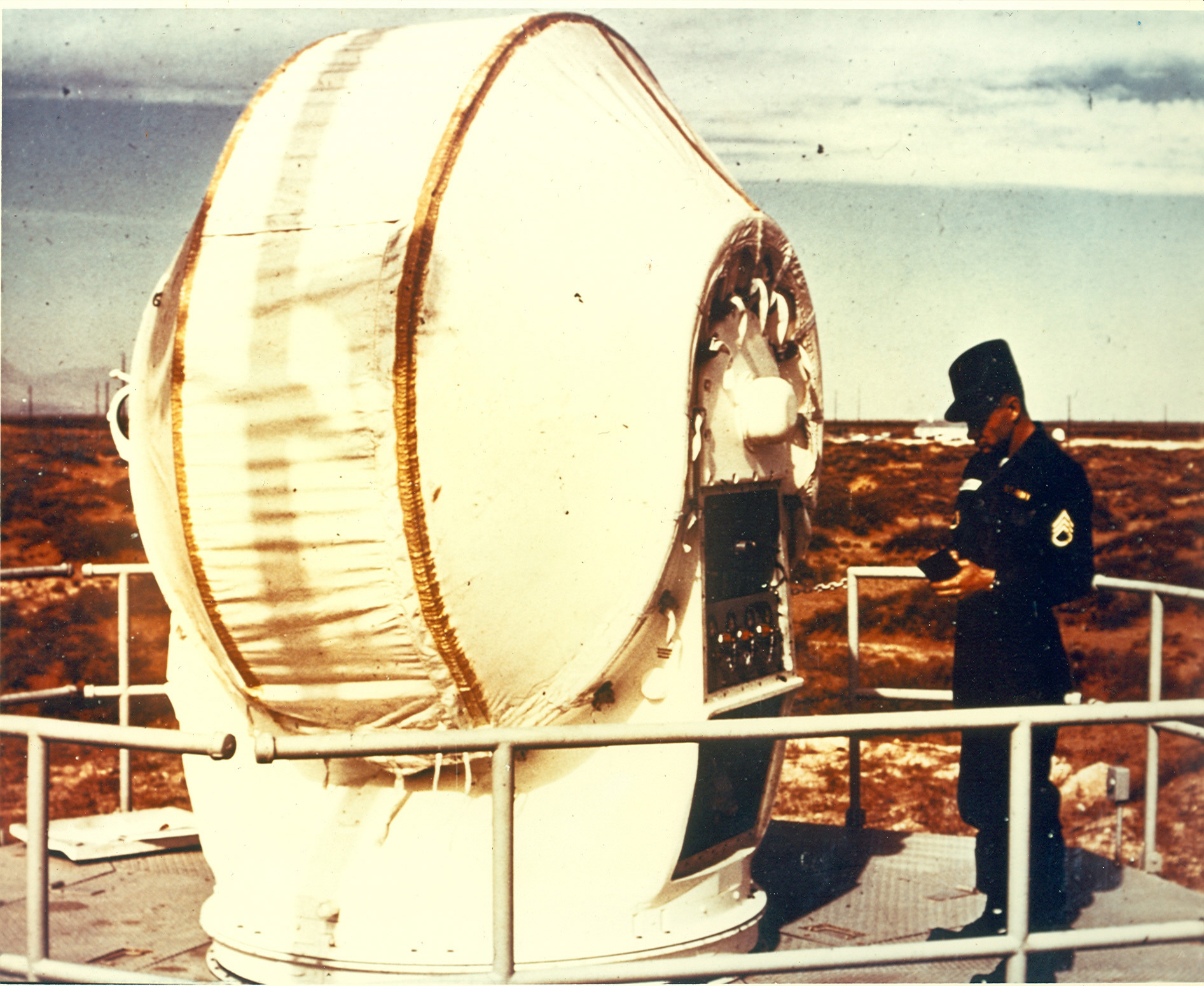 The Missile Track Radar at White Sands Missile Range, N.M., part of the Nike Zeus anti-ballistic missile system.